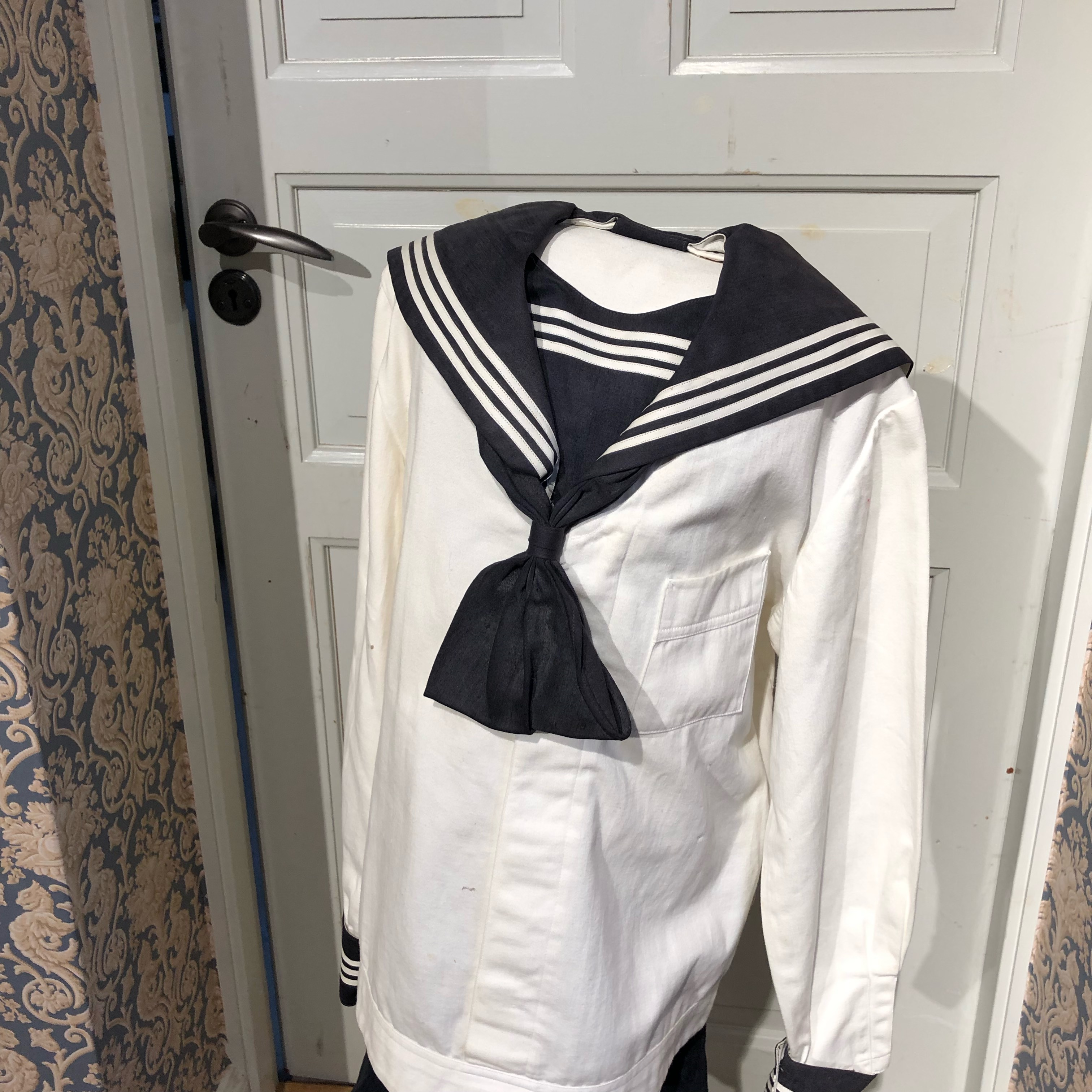 Sailors jacket, designed by Maria Sahlin